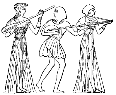 An illustration from the Encyclopaedia Biblica, a 1903 publication which is now in the public domain. Fig. 22 for article "Music". Image of Ancient Egyptian stringed instruments, including a lute